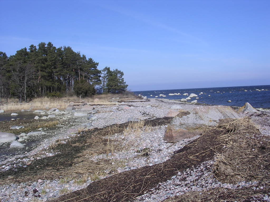 Kuradisaar islet